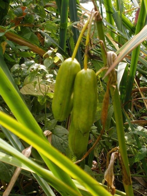 The fruits of the Iris pseudacorus in Kew Gardens, England.